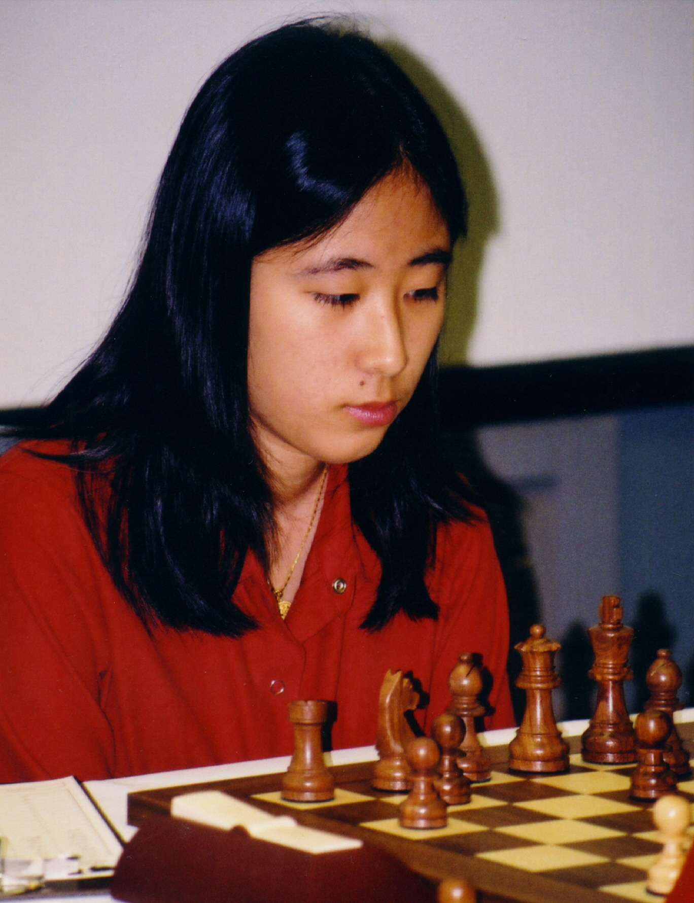 Cindy Tsai at the 2003 U.S. Chess Championships in Seattle, Washington.